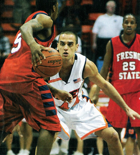 Alexandros anthis